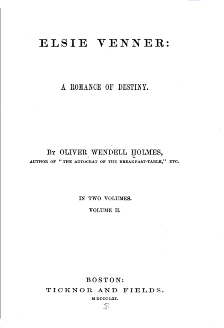 Title page of volume II of Elsie Venner, a novel by Dr. Oliver Wendell Holmes. Published by Ticknor and Fields, 1861. Note: some library markings removed.